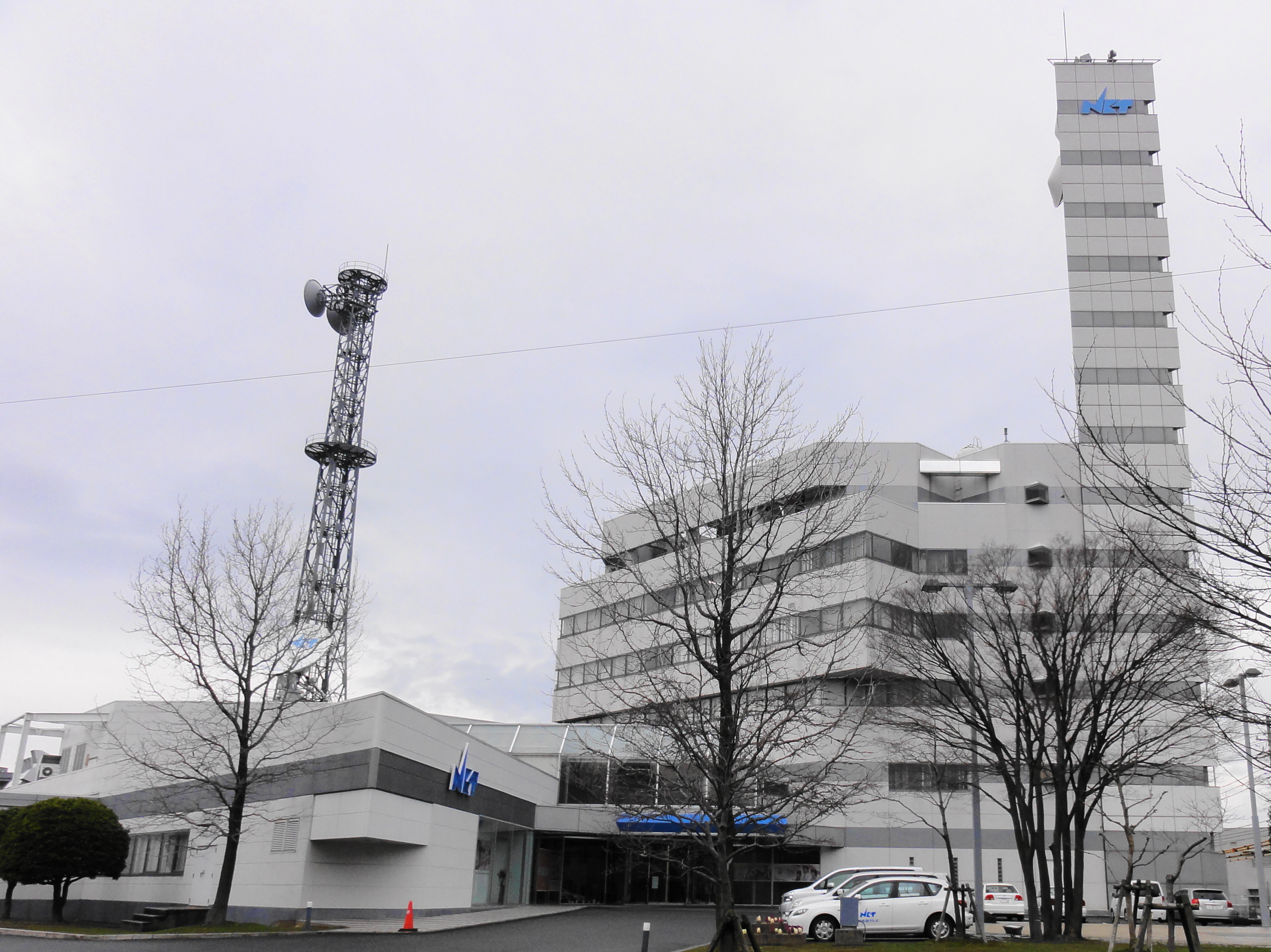 Nihonkai Telecasting,Tottori Pref., Japan